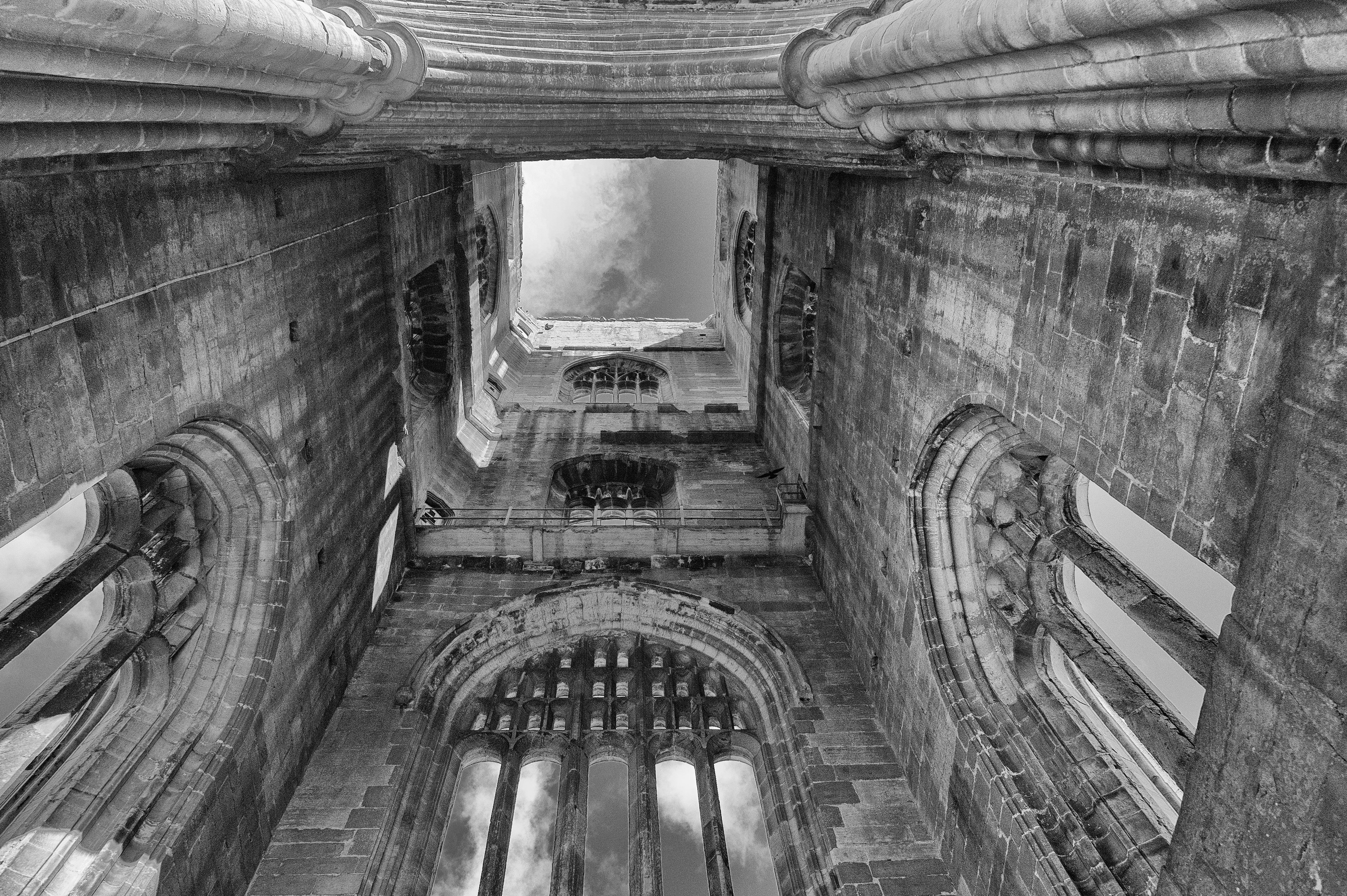 FOUNTAINS ABBEY, WITH ANCILLARY BUILDINGS Wikidata has entry Q540237 with data related to this building.